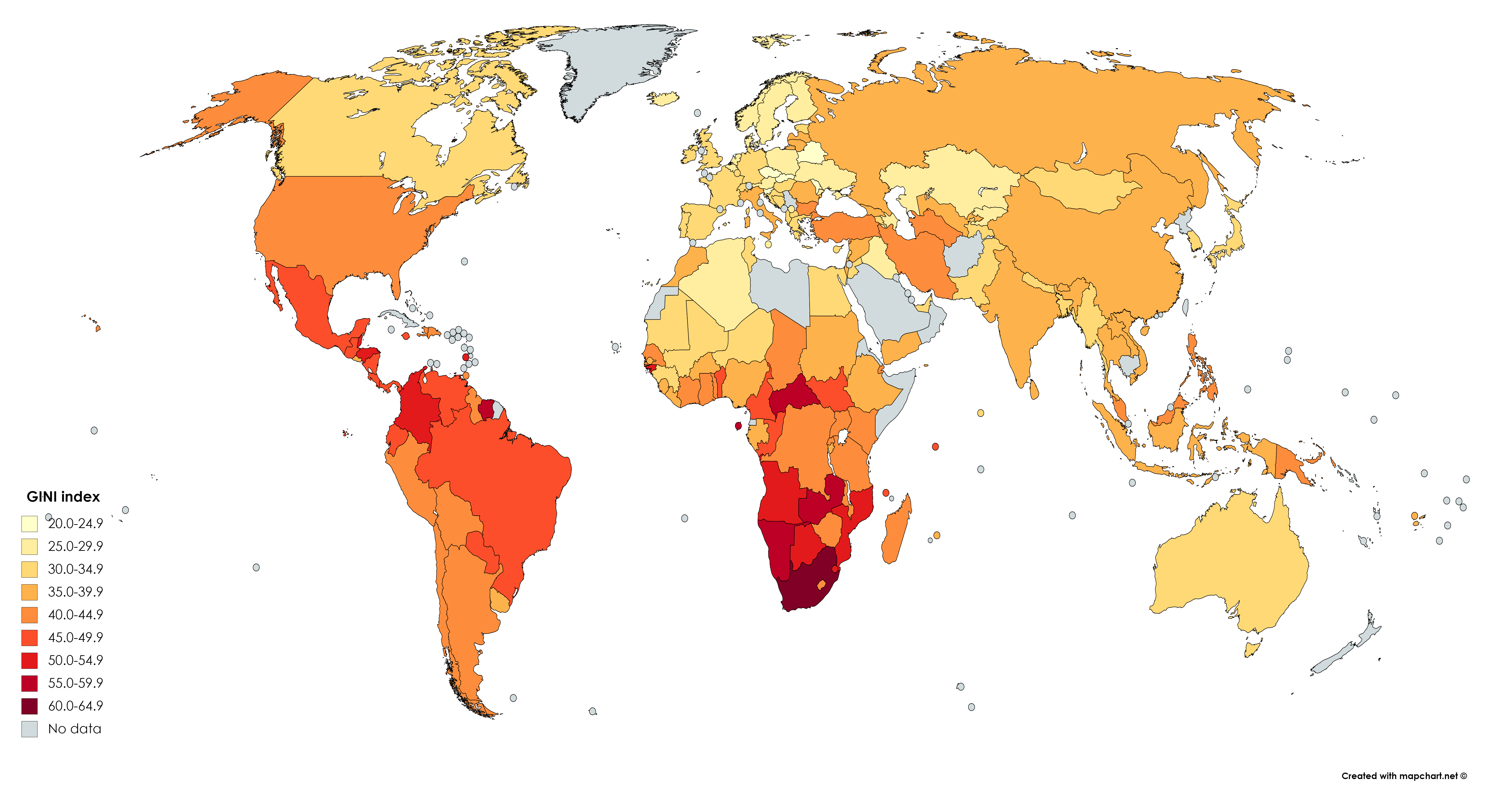 World map of the GINI coefficients by country. Based on World Bank data ranging from 1992 to 2018.